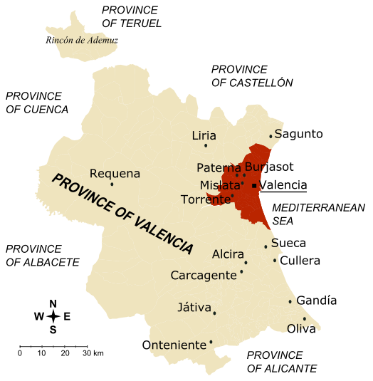 Map of the province of Valencia (Spain) The inner city and the towns conforming the first crown of Valencia metropolitan area are drawn in dark brown; together, they concentrate 60.62% of the province population in 5.73% of its surface, with a mean density of 2.407 hab/km2. The towns marked on the map are those with more than 30,000 inhabitantes (if they belong to Valencia metropolitan area) or more than 20,000 inhabitants (for the rest of towns), according to 2005 census. Author: Rodriguillo Realised from: Image:Valencia - Mapa municipal.svg Other versions: español, français